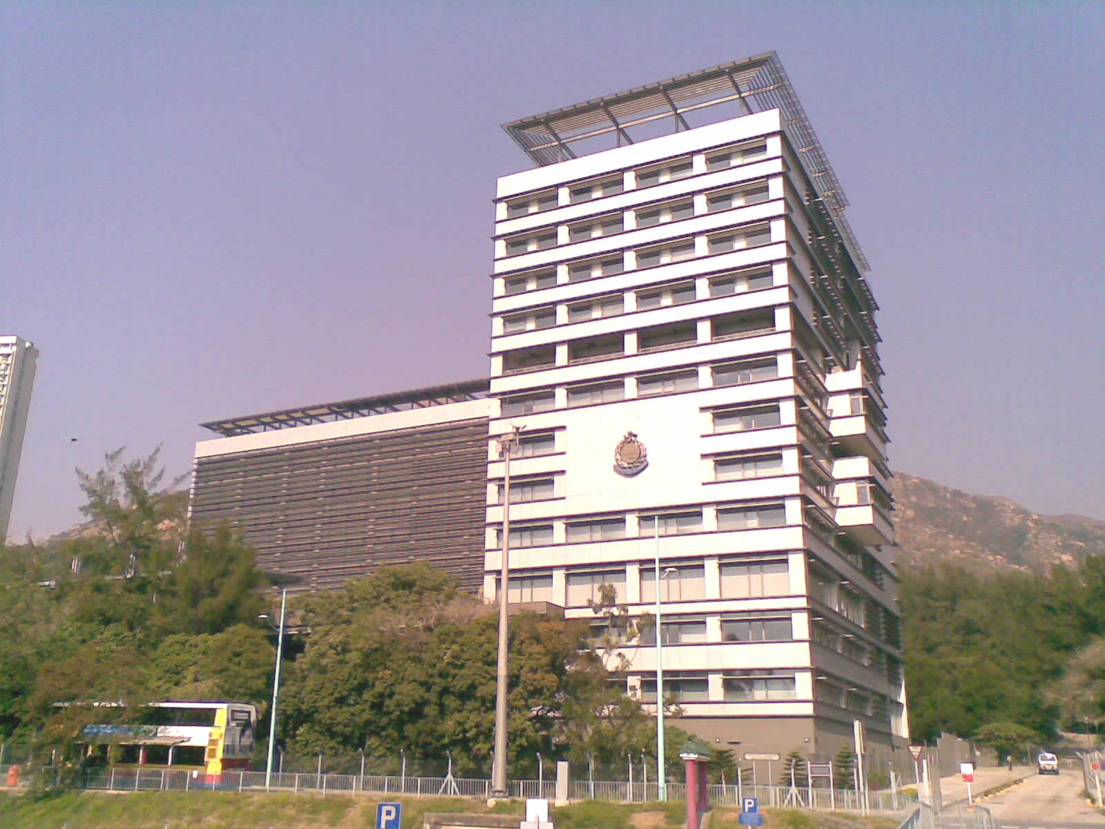 Castle Peak Bay Immigration Centre and Immigration Service Training School